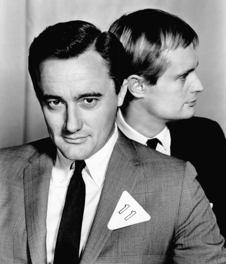 Photo of Robert Vaughn and David McCallum as Napoleon Solo and Illya Kuryakin from the television program The Man from U.N.C.L.E.".